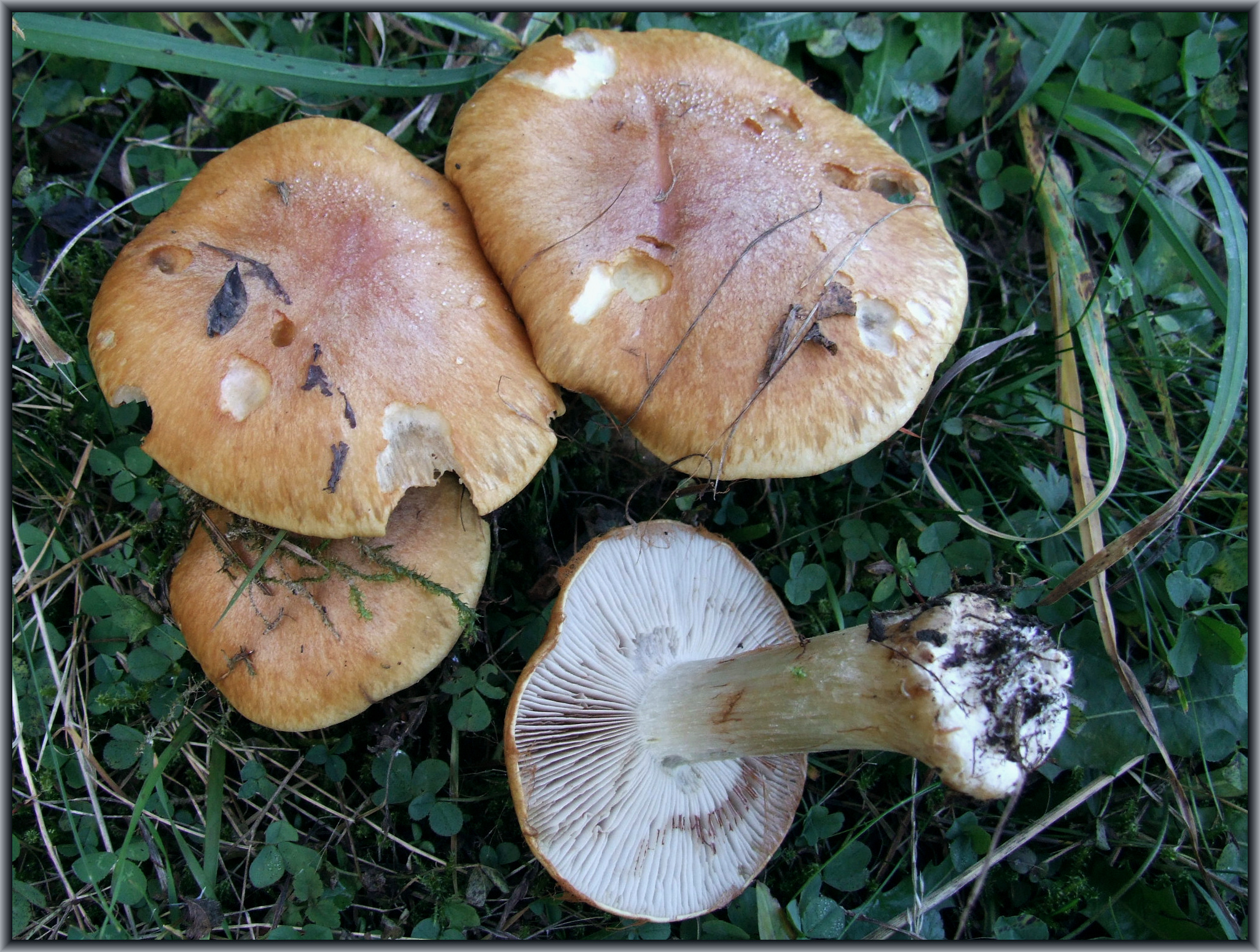 Cortinarius callochrous (location: Poland, Pieniny, Dolina Białej Wody)